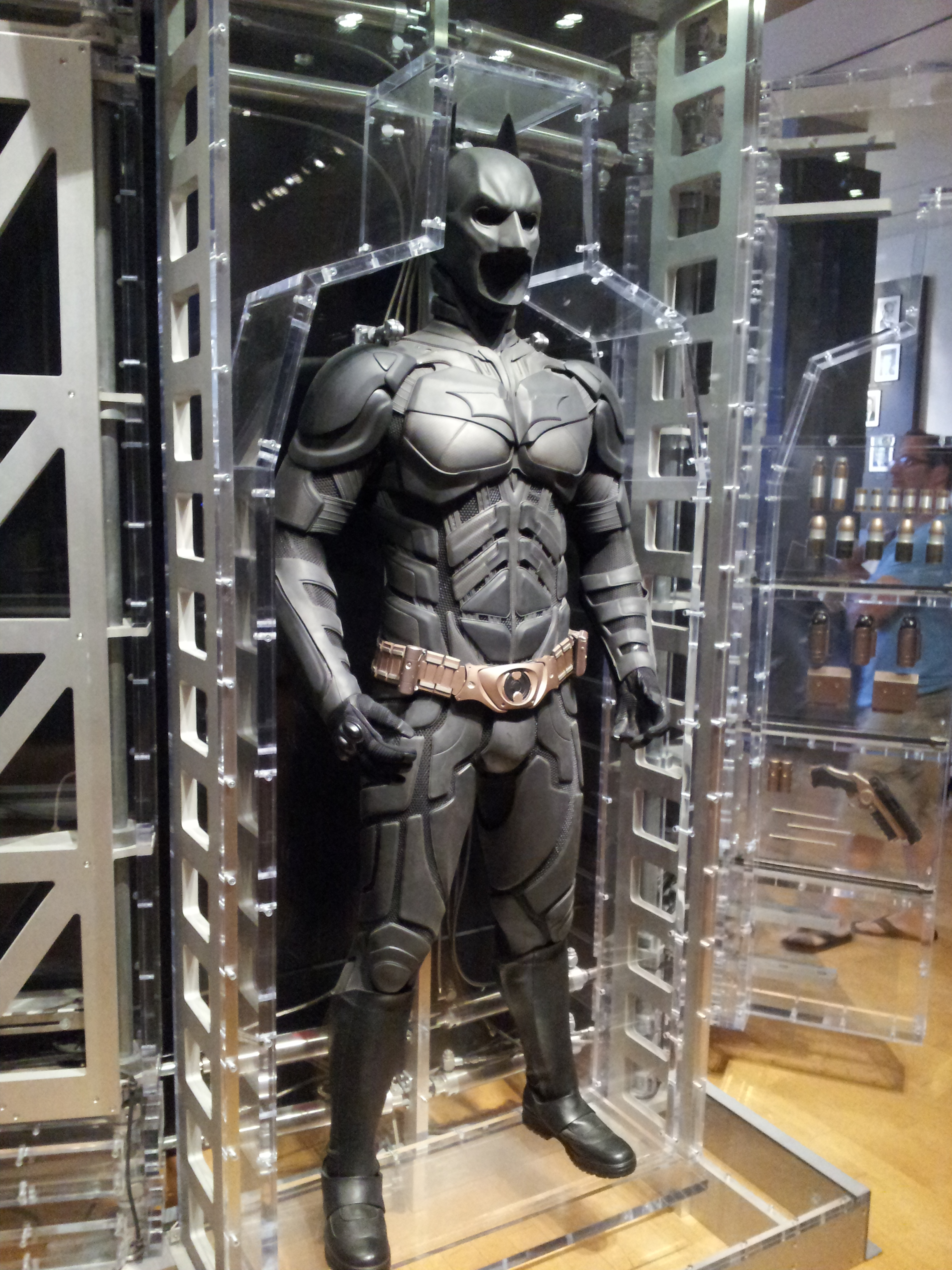 Batsuit from The Dark Knight Rises film (closer view) - Batman Exhibit at Warner Bros. Studio Tour Hollywood